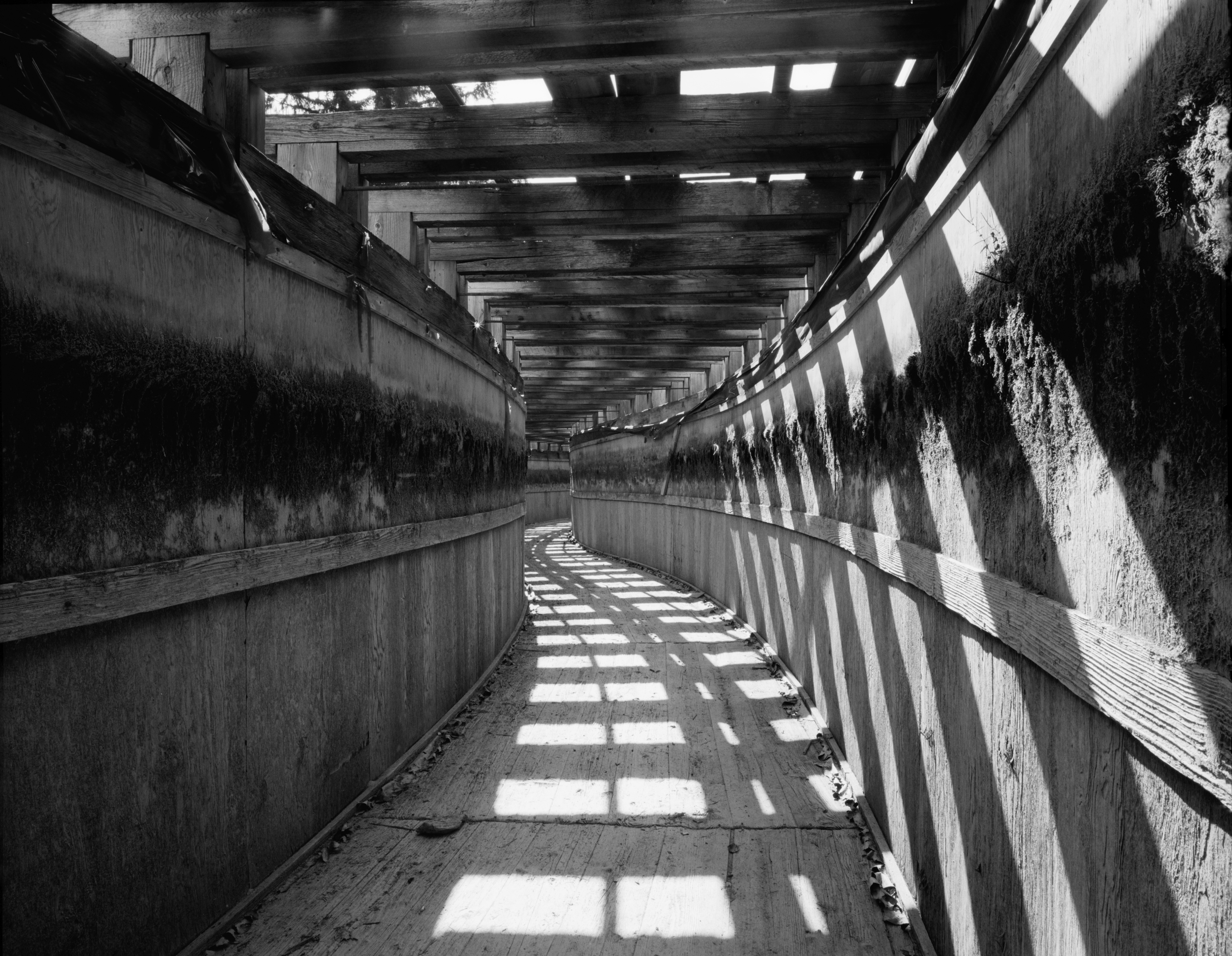 Shuffleton, Samuel L; Puget Sound Power and Light Company; Congdon, Chester A; Stone and Webster; Webster, Edwin S; Stone, Charles A; Columbia Improvement Company; Mitchell, S Z; Quinan, C E; Harrisburger, J; Yearby, Jean P, transmitter; Fitzsimons, Gray, historian; Garvey, Dick, photographer; Lombard, Barry, historian